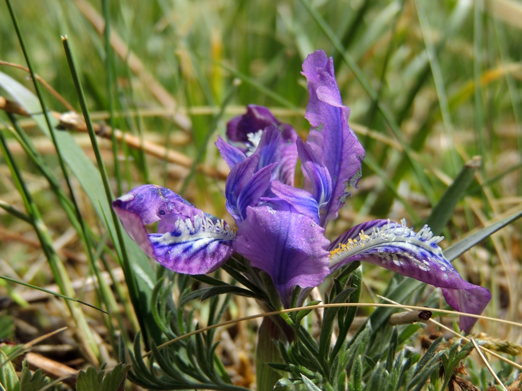 Iris tigridia, Altai, Russia